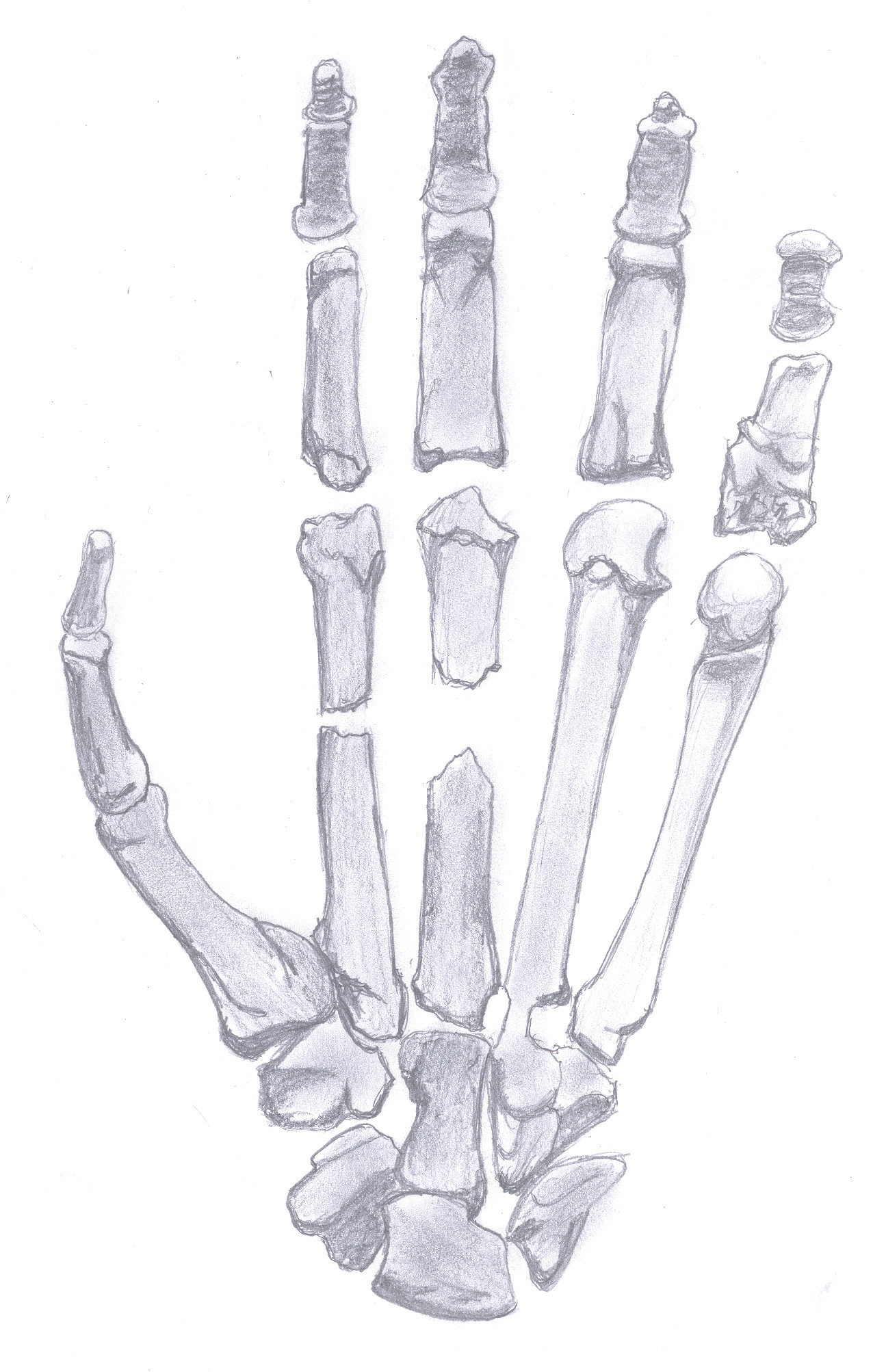 Ardipithecus ramidus („Ardi“), hand. Own drawed remake of p.37, "Science" of 2nd October 2009.